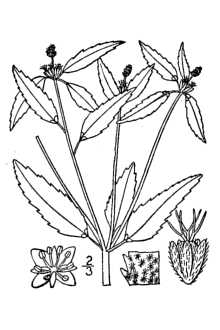 Plant structure Croton glandulosus